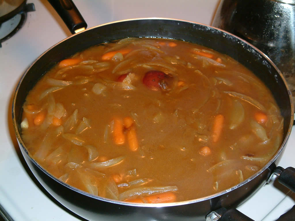 Japanese-style curry using off-the-shelf commercial packs (probably S&B or similar).